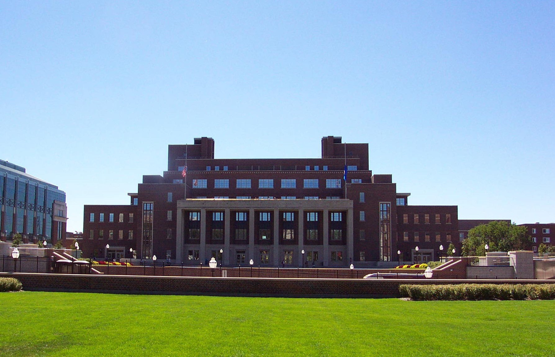 Coffman Union at the University of Minnesota Twin Cities